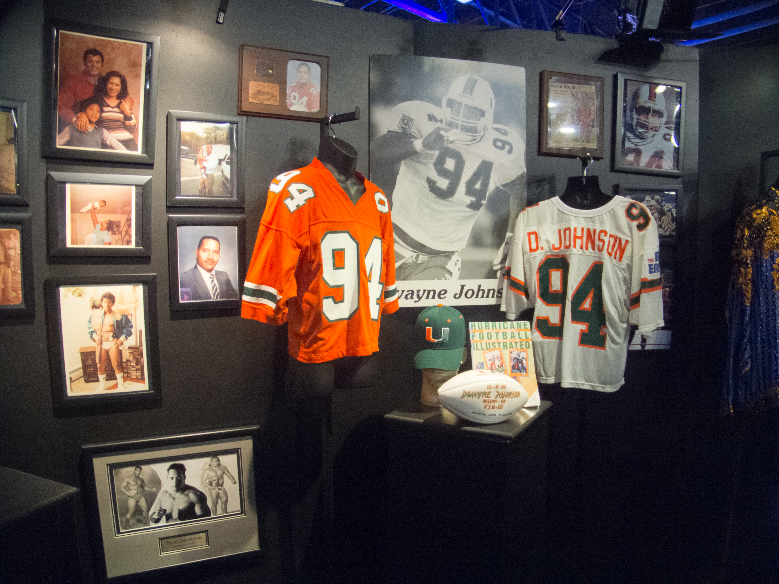 The Rock Memorabilia